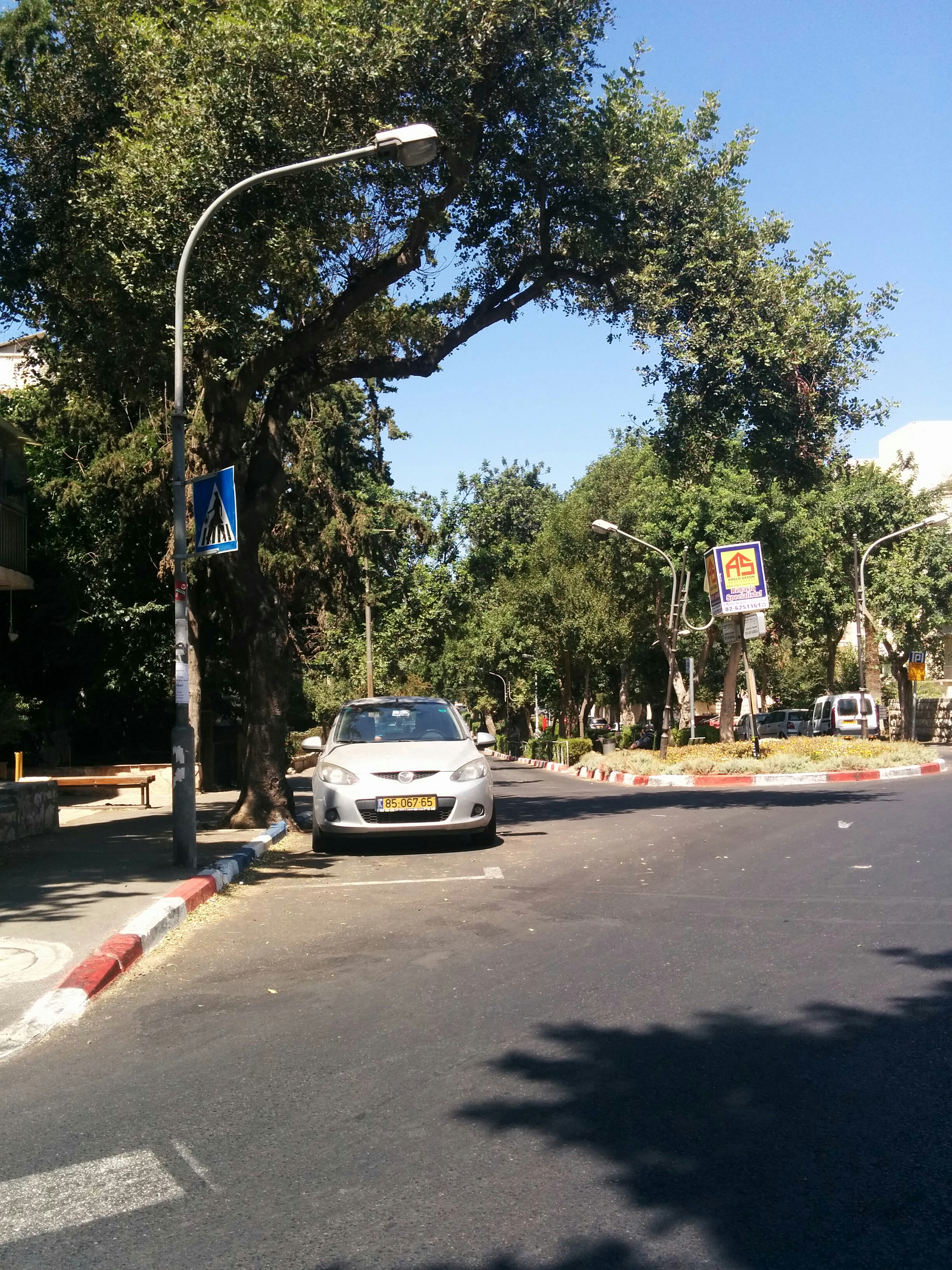 ben Maimon Blvd. In Jerusalem, Israel